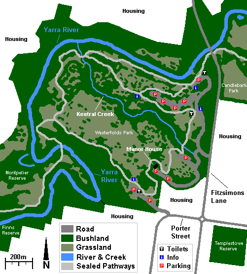 a basic map of westerfolds park showing features like rivers, creeks, bushland, grassland, toilets, roads, car parking, pathways and information.